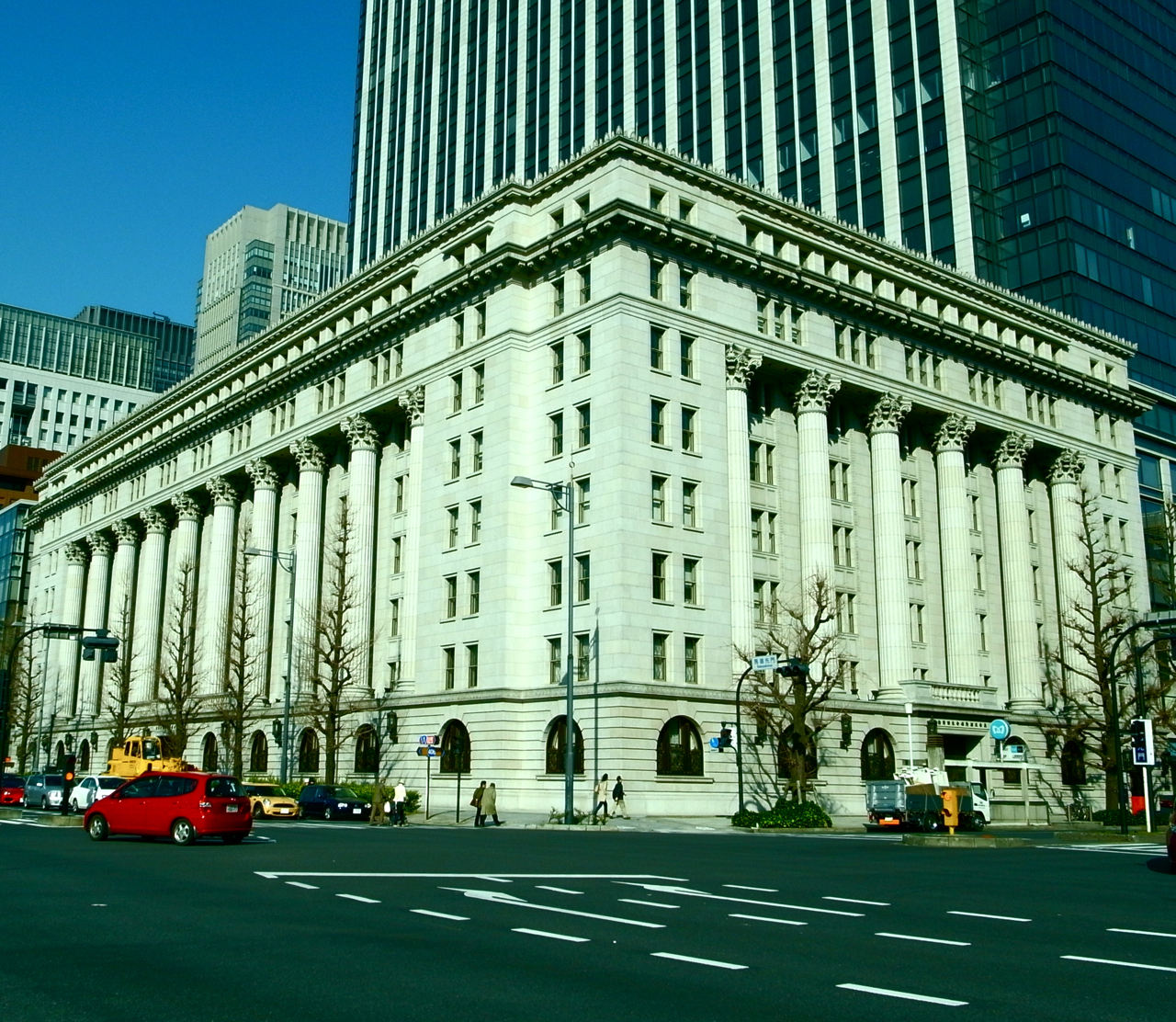 Meiji life insurance building in Marunouchi, Tokyo, Japan.